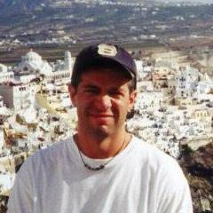 Terry K. Amthor, taken in 2000 in Santorini, Greece